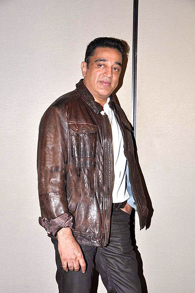 Kamal Haasan at Promotions of 'Vishwaroop' with Videocon